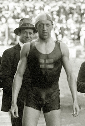 Sport, 1920 Olympic Games in Antwerp, Belgium, pic: 1920, Hakan Malmroth, Sweden, double Gold medal winner in the 200 and 400 metres Breaststroke